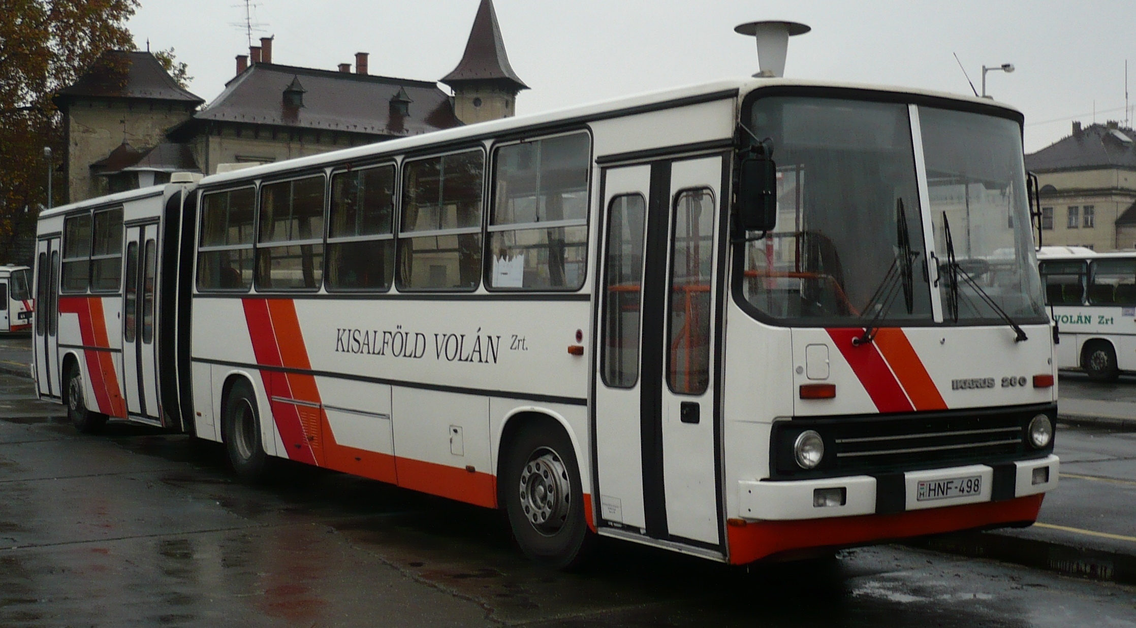 HNF-498 bus